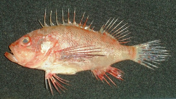 Brachypterois serrulata, Pakistan, Karachi, 13 cm